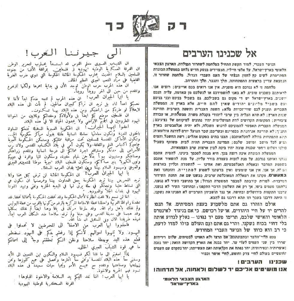 Poster published by the Irgun